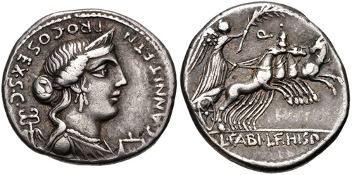 C. Annius T.f. T.n and L. Fabius L.f. Hispaniensis. 82-81 BC. AR Denarius (19mm, 3.94 g, 4h). Mint in northern Italy or Spain. C • ANNI • T • F • T • N • PRO • COS • EX • S • C, diademed and draped bust of Anna Perenna right; caduceus to left, scales to right; uncertain control mark below / Victory driving galloping quadriga right, holding palm branch in right hand and reins om left ; Q • above. Cf. Crawford 366/1a; cf. Sydenham 748; cf. Kestner 3165-7; cf. BMCRR Spain 1-9; RBW ; cf. Annia 2a . Good VF, toned, obverse control off flan.